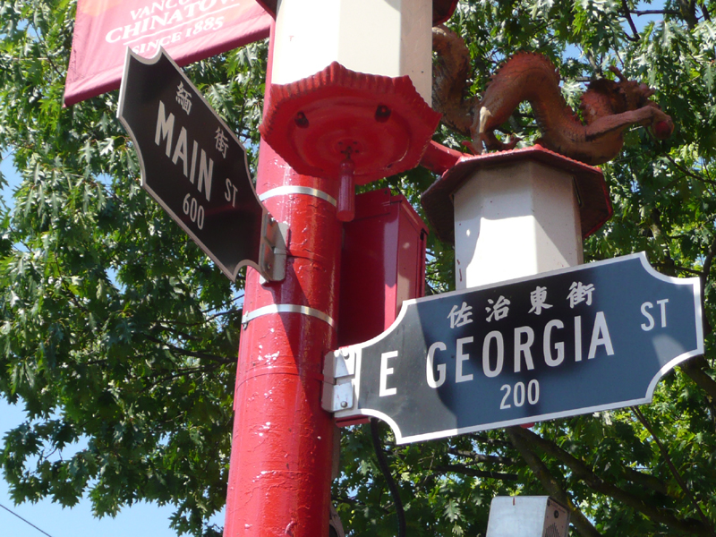 Bilingual street signs at Main and East Georgia streets in Vancouver's Chinatown.